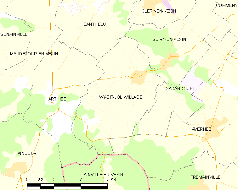 Map of French municipality Wy-dit-Joli-Village